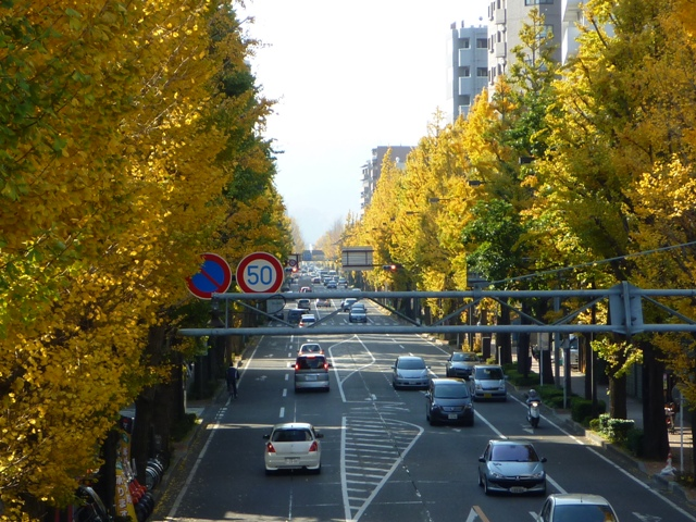 The Koshu Highway.(Route 20.) Ginkgo roadside trees. Hachioji City, Tokyo, Japan.